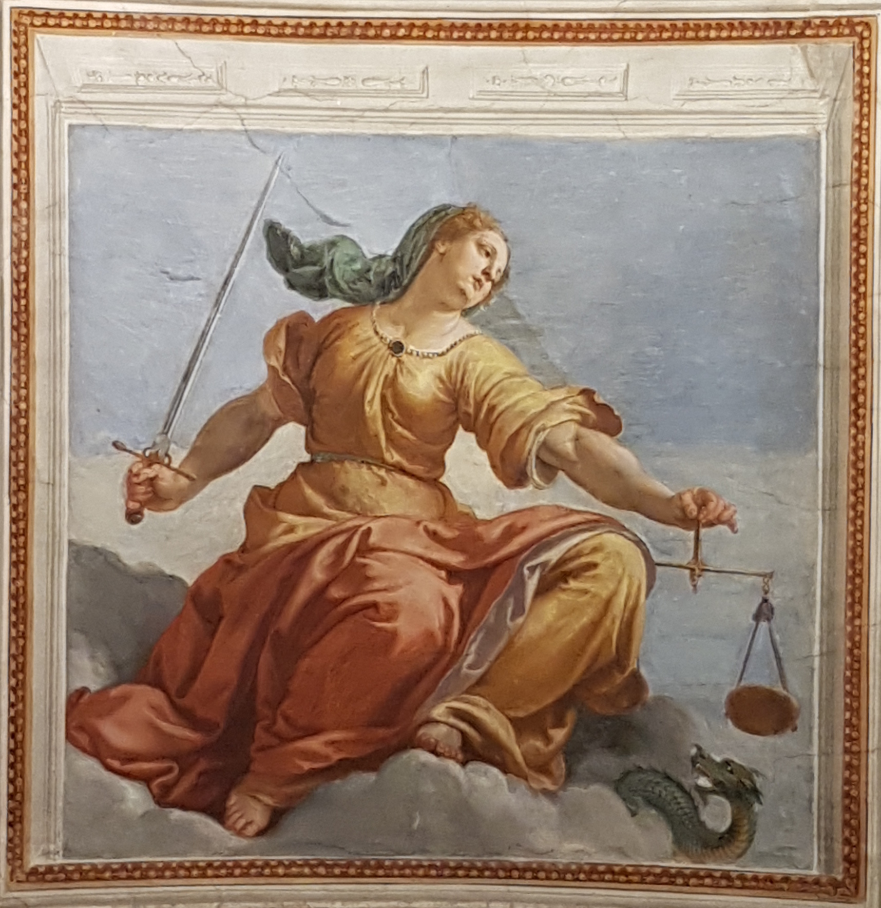 Allegory of Justice. Ceiling of galleria del Poccetti in the Palazzo Pitti (Florence).